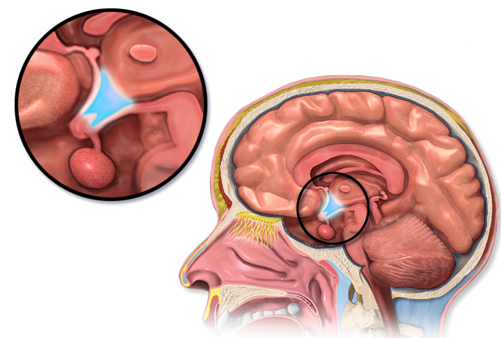 Hypothalamus. See a full animation of this medical topic.